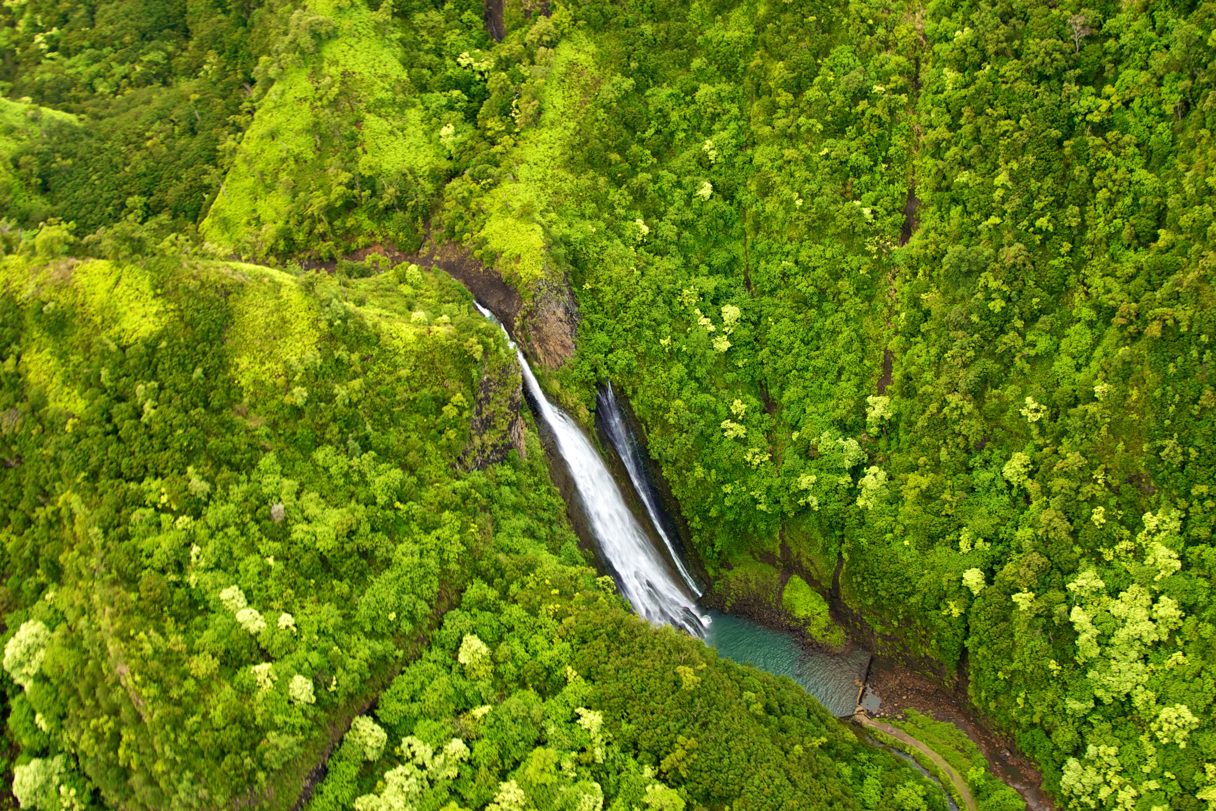 Featured in Jurassic Park. Taken from helicopter.